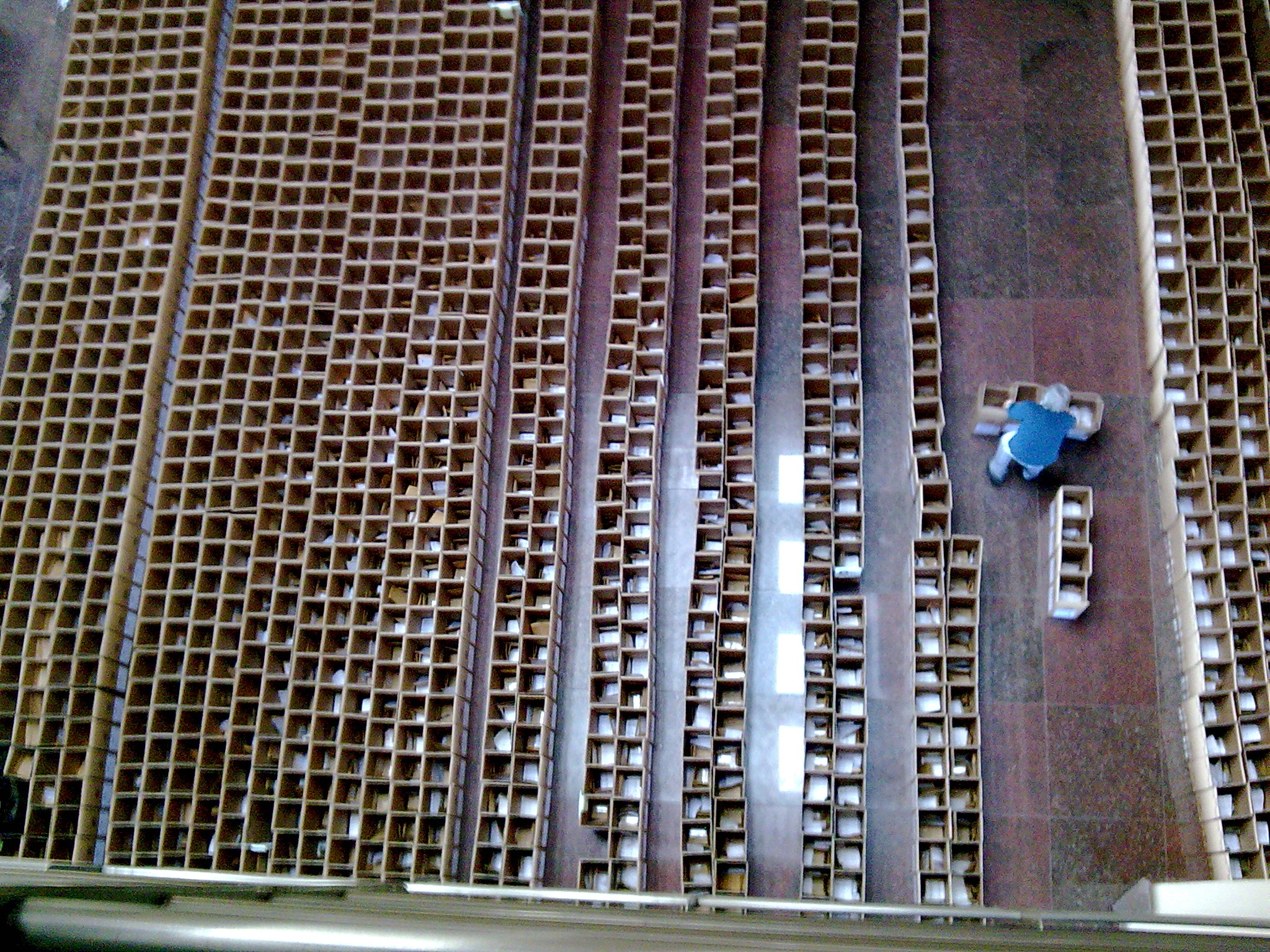 Ballot boxes of the primary election in Argentina. Picture taken in the Federal Court, Cordoba City.